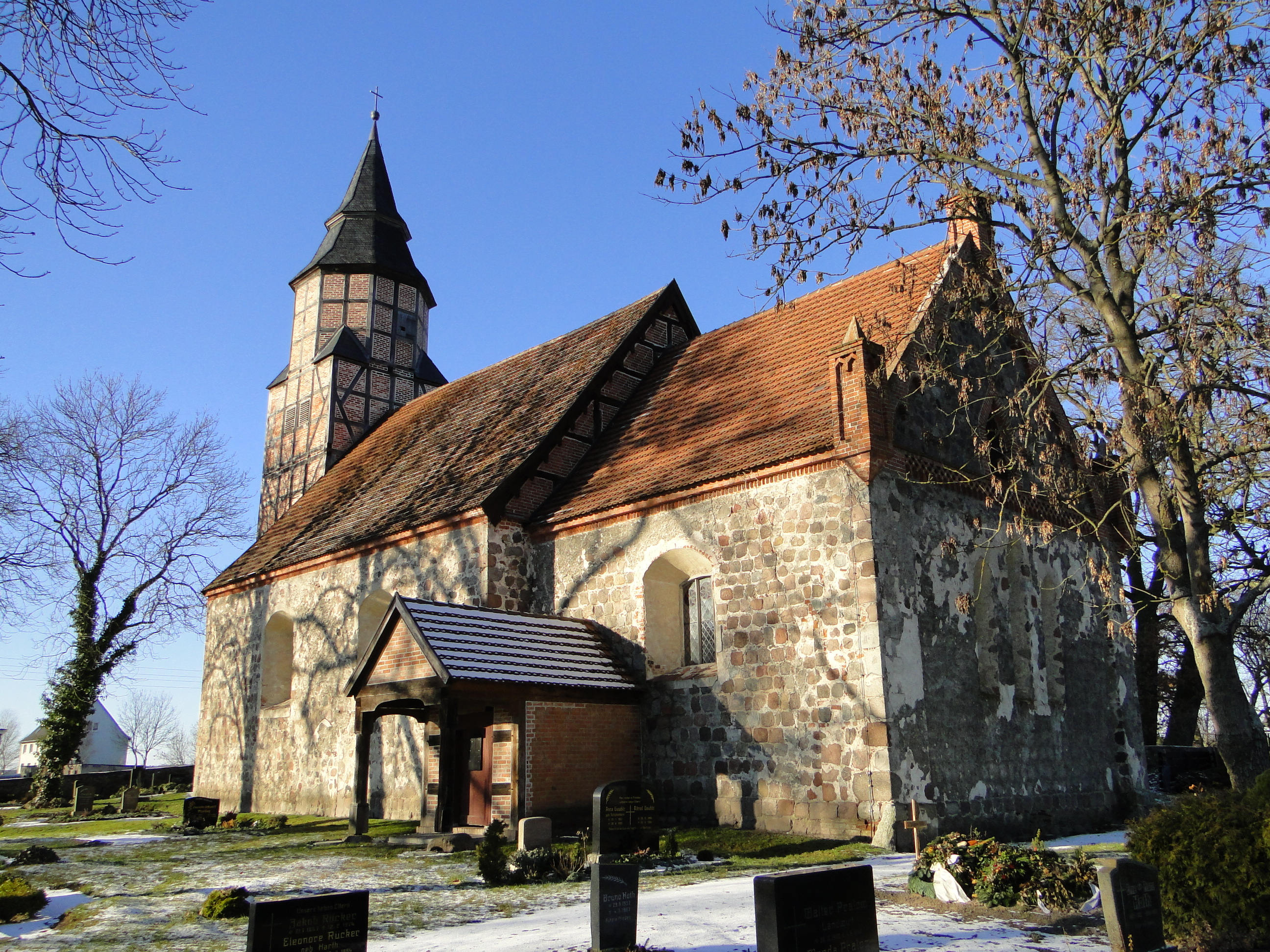 Church in Klockow, district Mecklenburg-Strelitz, Mecklenburg-Vorpommern, Germany